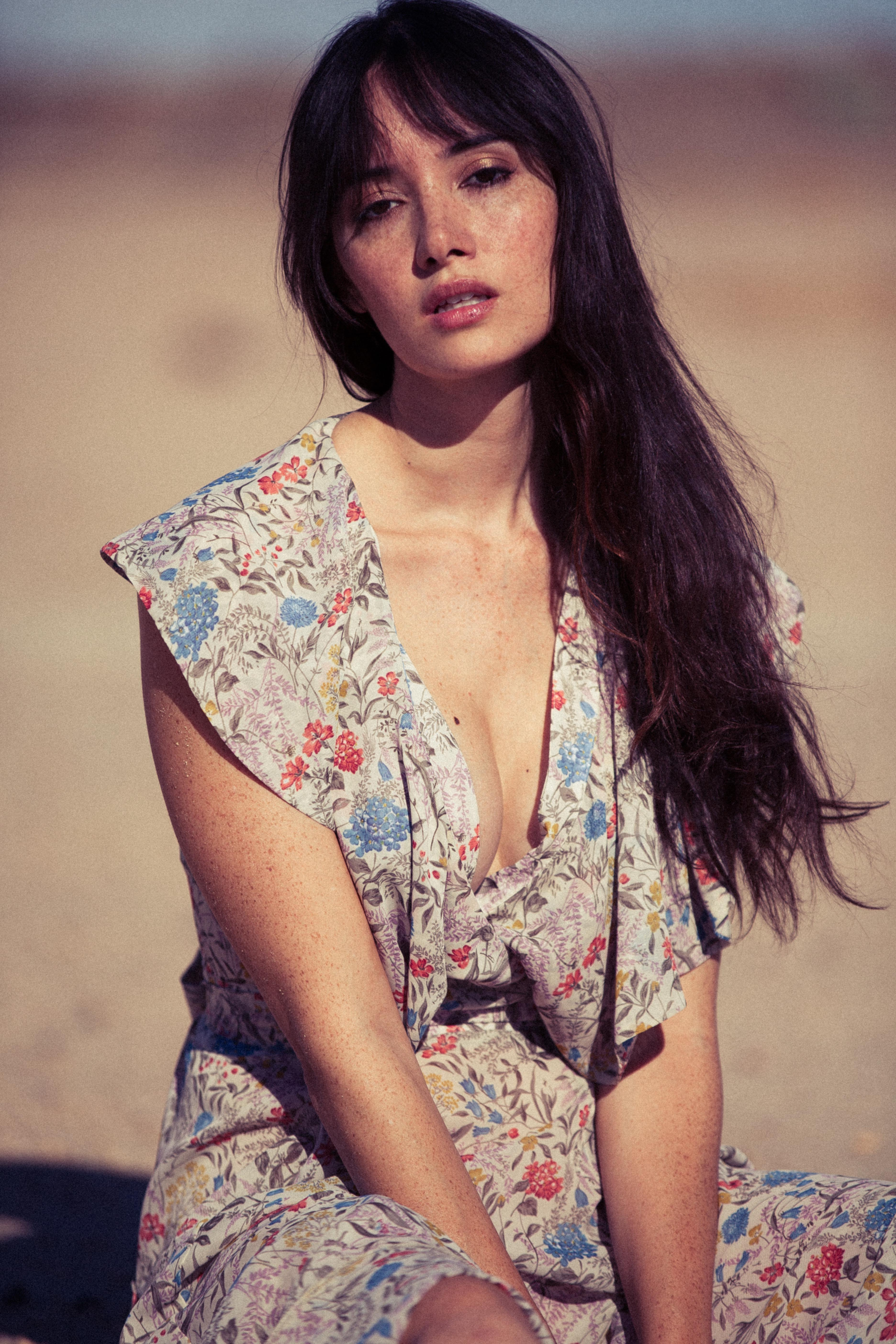 Model and actress Sara Malakul Lane, of Elite Models. Shot By: Michael Benatar Make-Up/Hair: Maddie North Stylist: - TAYLOR SHERIDAN